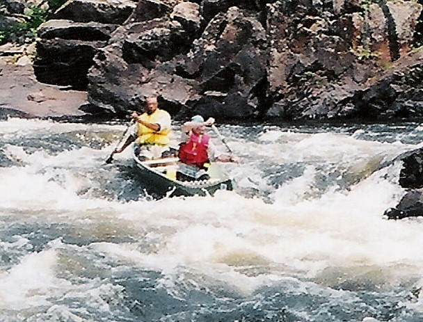 Running the Crooked Chute on the Petawawa River, Ontario, Canada. This is a very dangerous rapid, and should only be run by highly experienced canoeists!!!